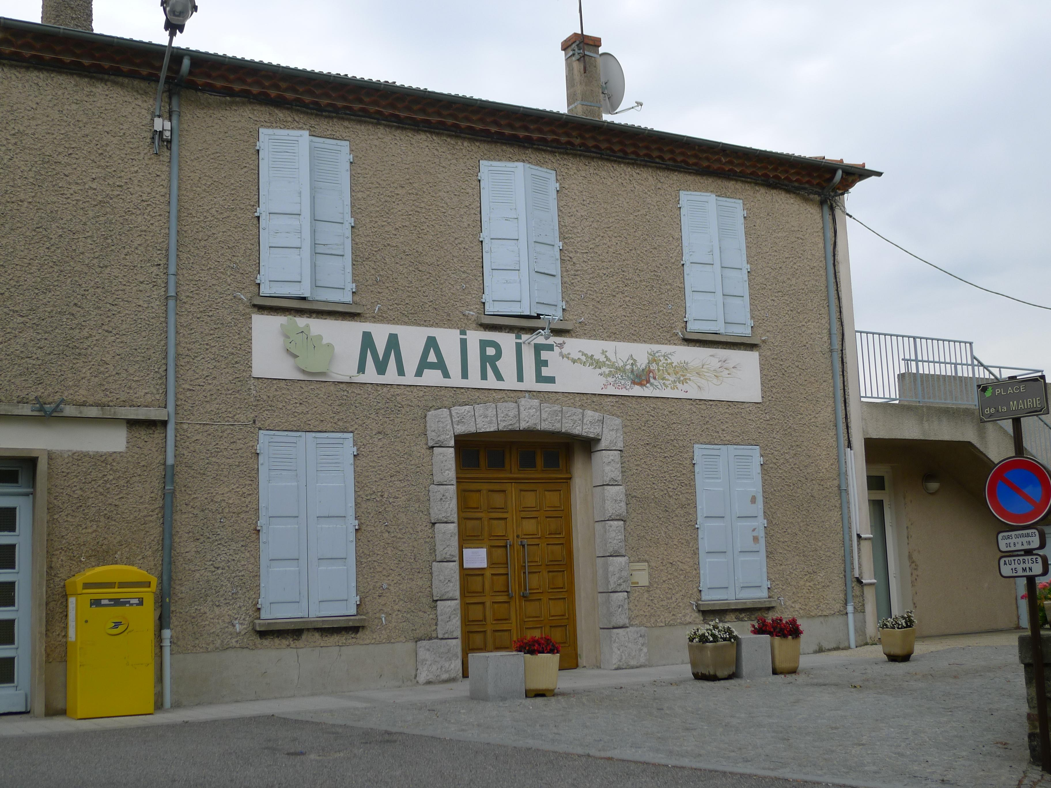 Town hall of Saint-Victor - Ardèche - France